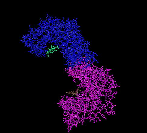 I (John Schmidt) rendered this image from this data file.